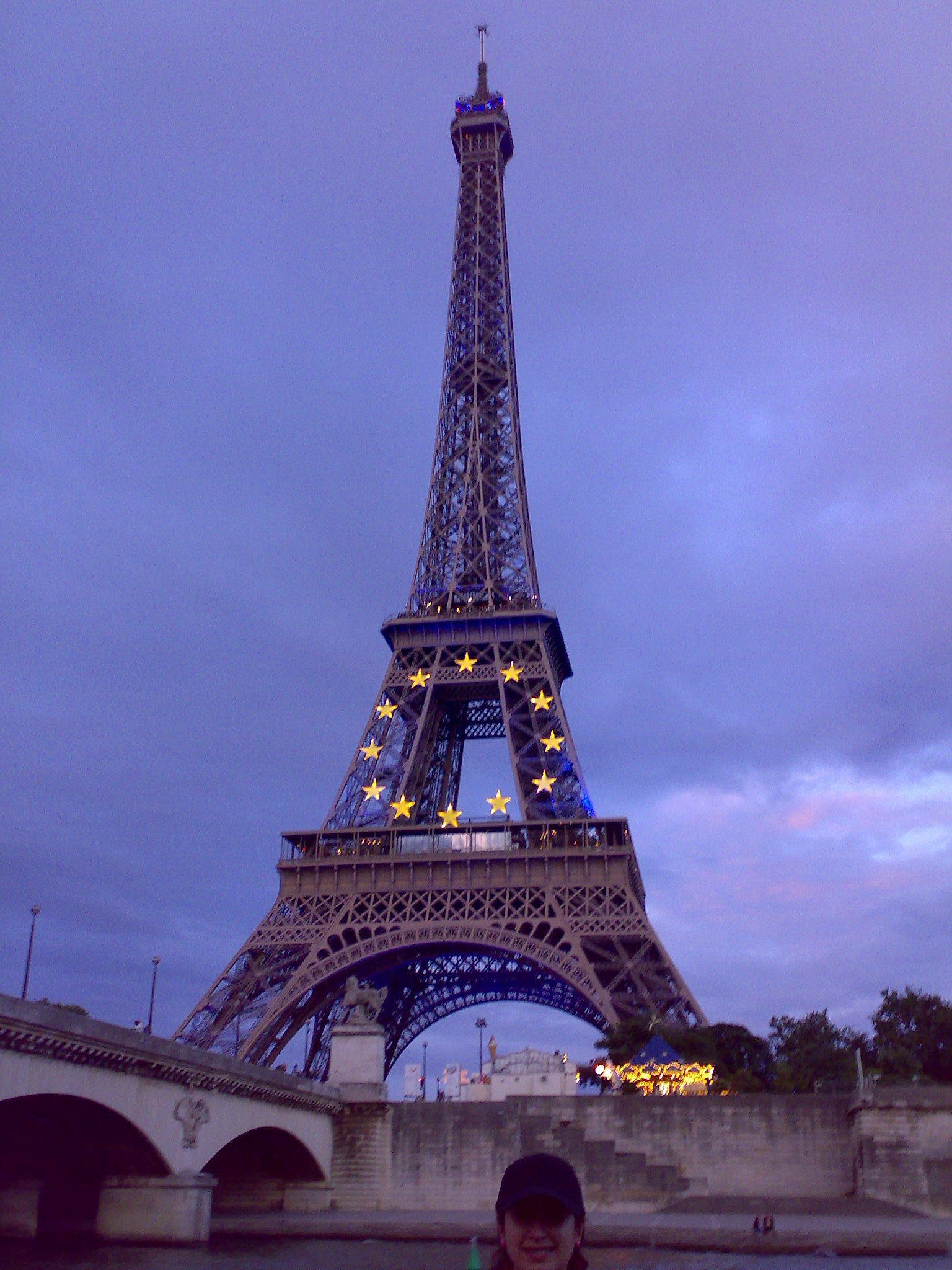 wieża